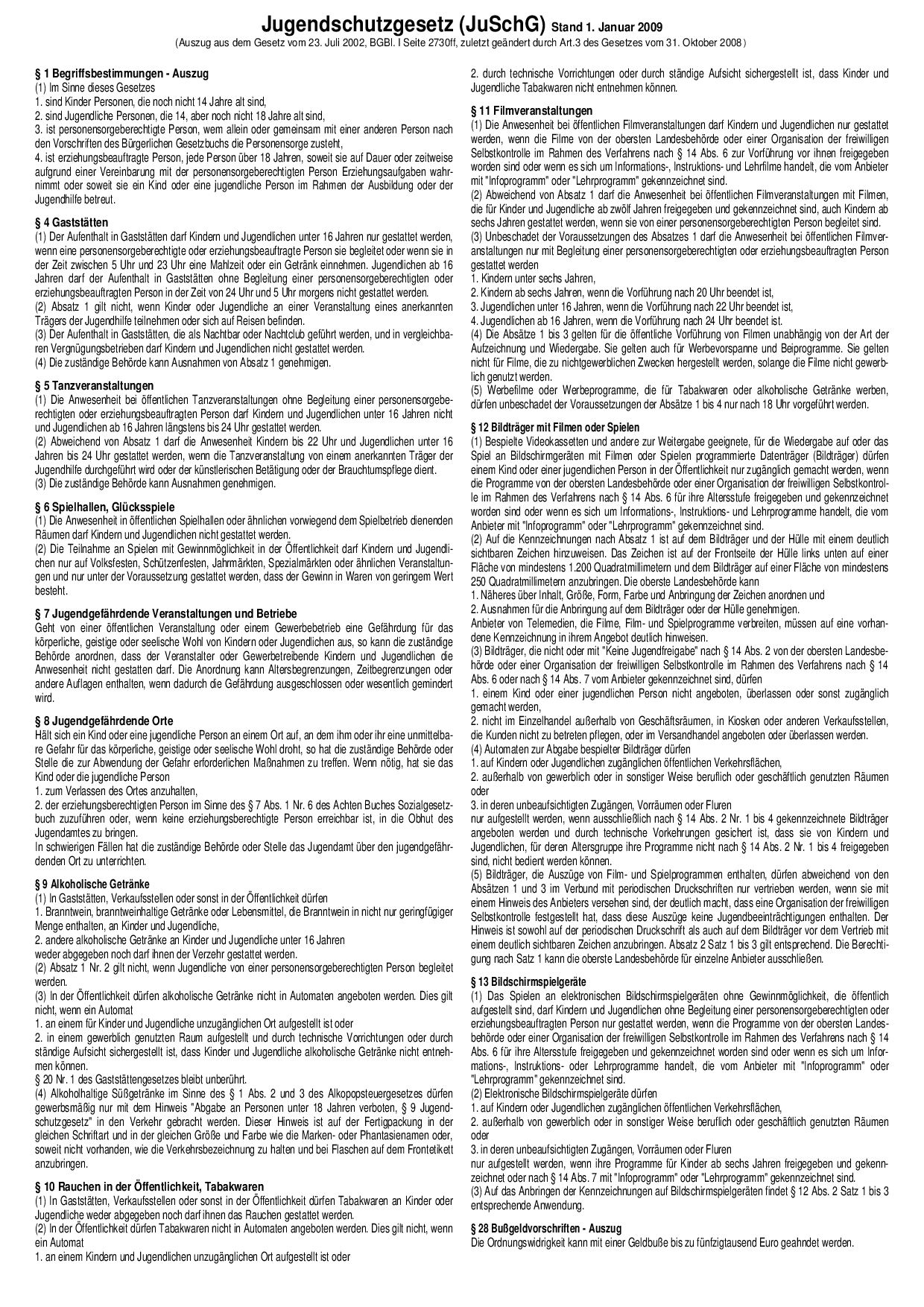 Protection of Young Persons Act - Regulations to prevent children and adolescents in public of threats or harms.